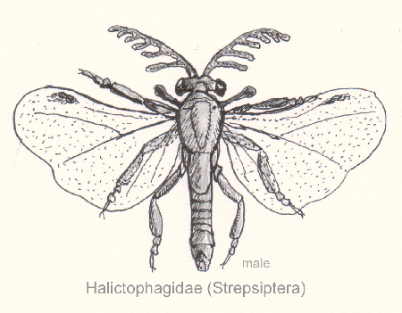 A drawing by Halvard from Norway.